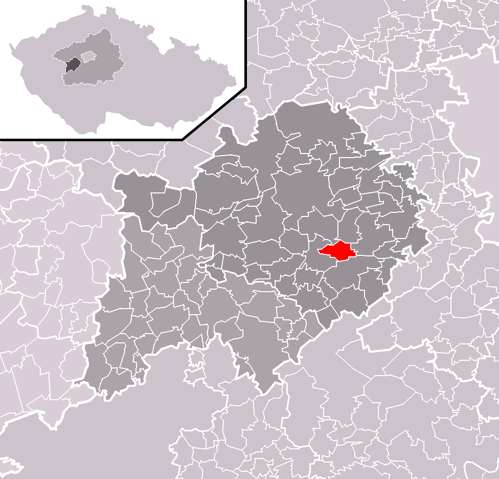 Location of Korno municipality within Beroun District and administrative area of Beroun as a Municipality with Extended Competence.